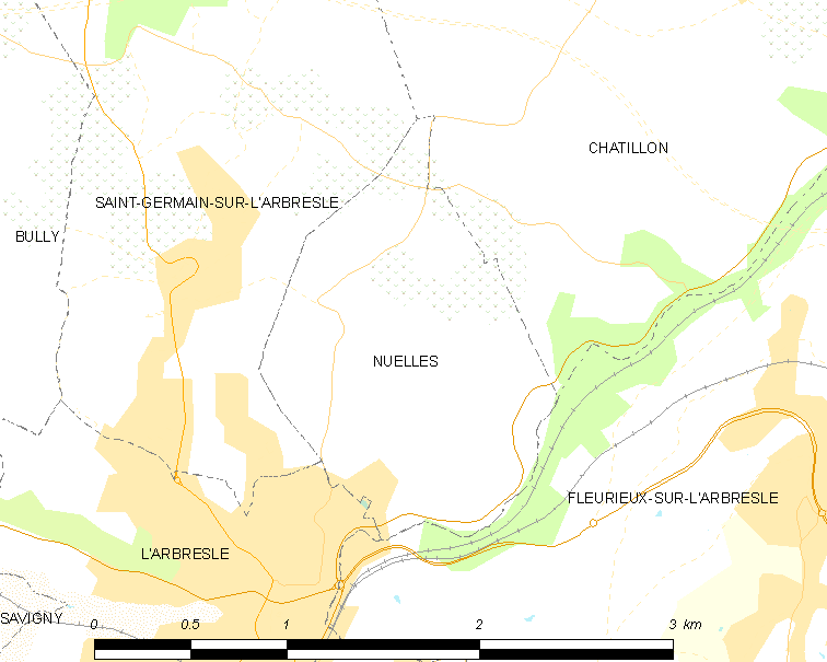 Map of French municipality